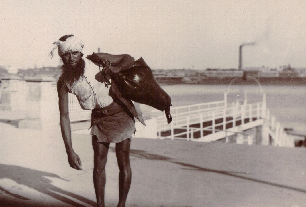 A Bhisti water carrier in Calcutta.